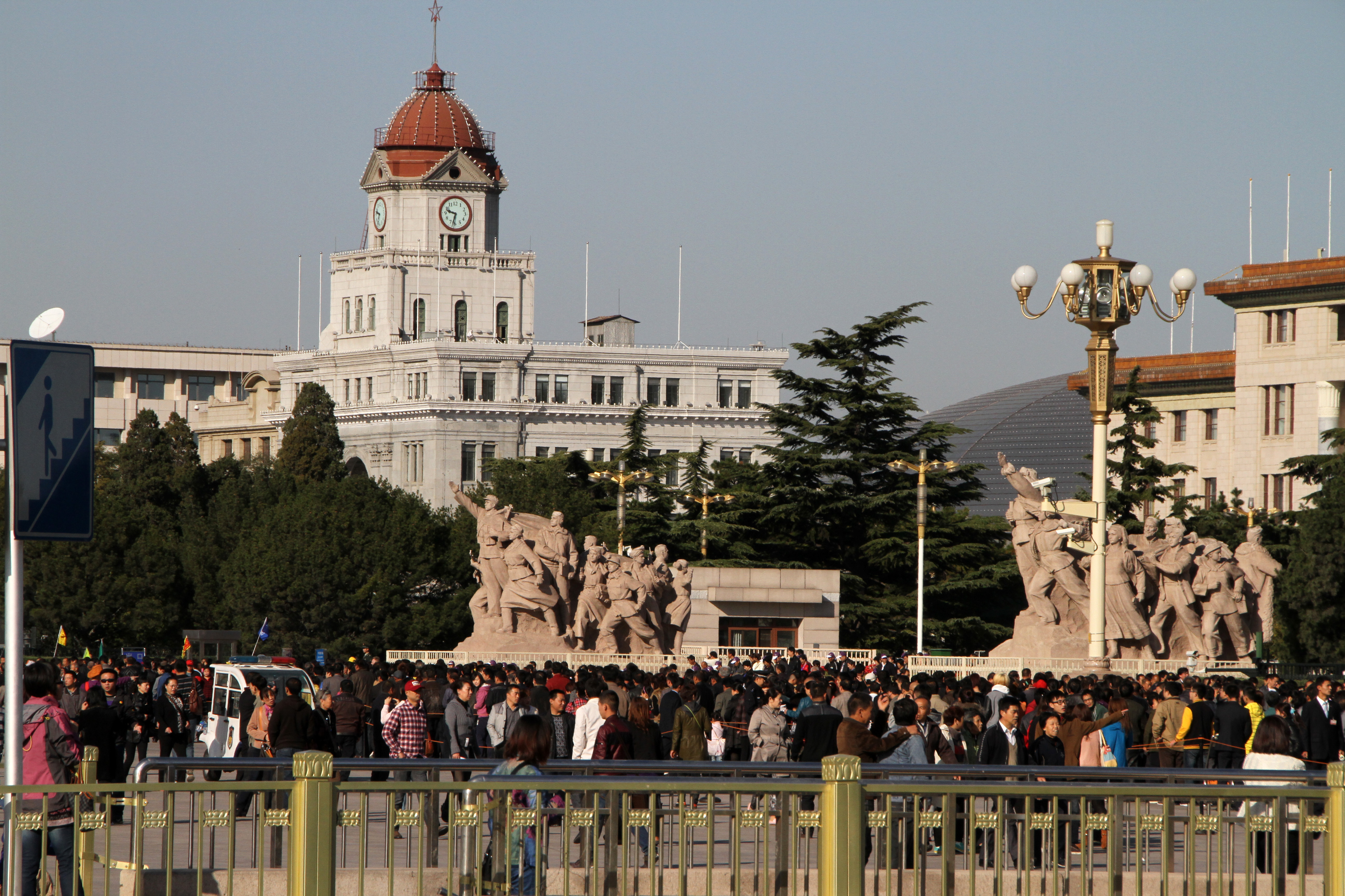 Beijing - Tiananmen - Square of Heavenly Peace